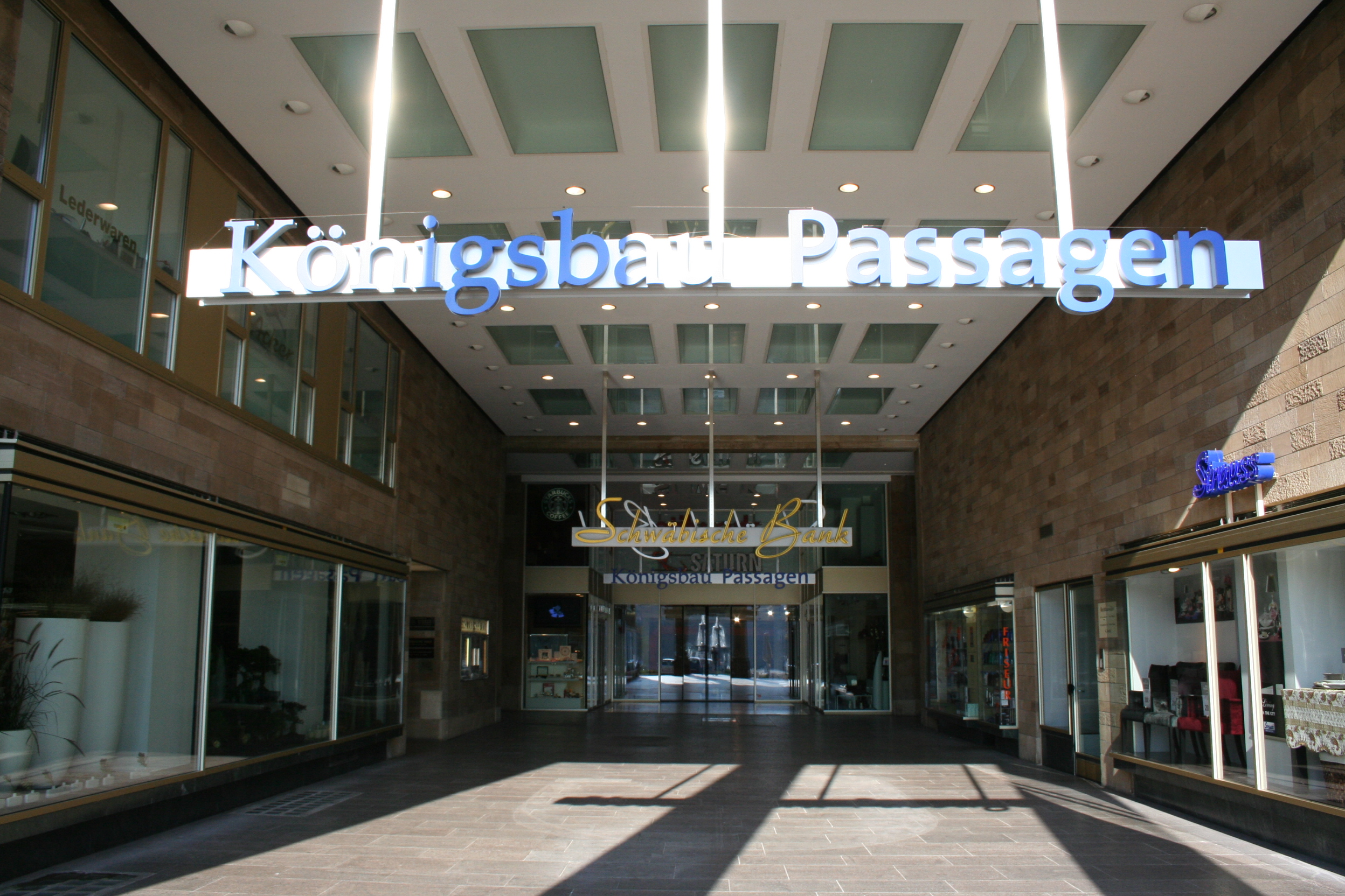 King's Building Mall, Stuttgart, Germany